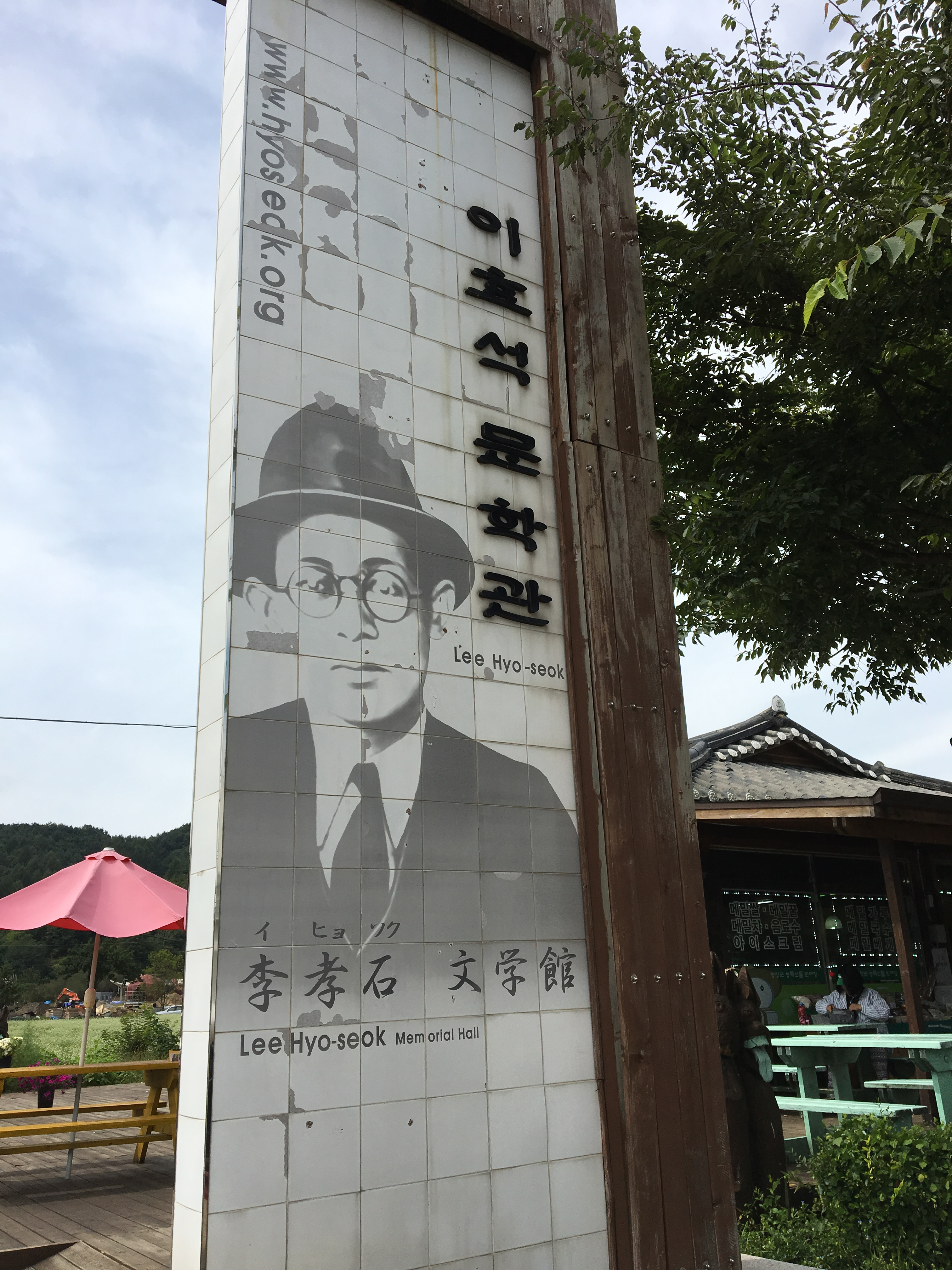 Lee's festival